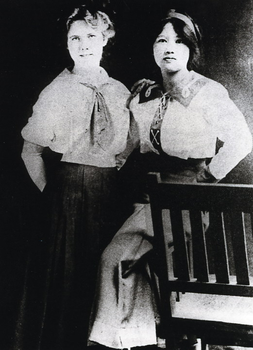 Soong Ching-ling and her schoolmate and close friend Alexandra Mann Sleep in Wesleyan College